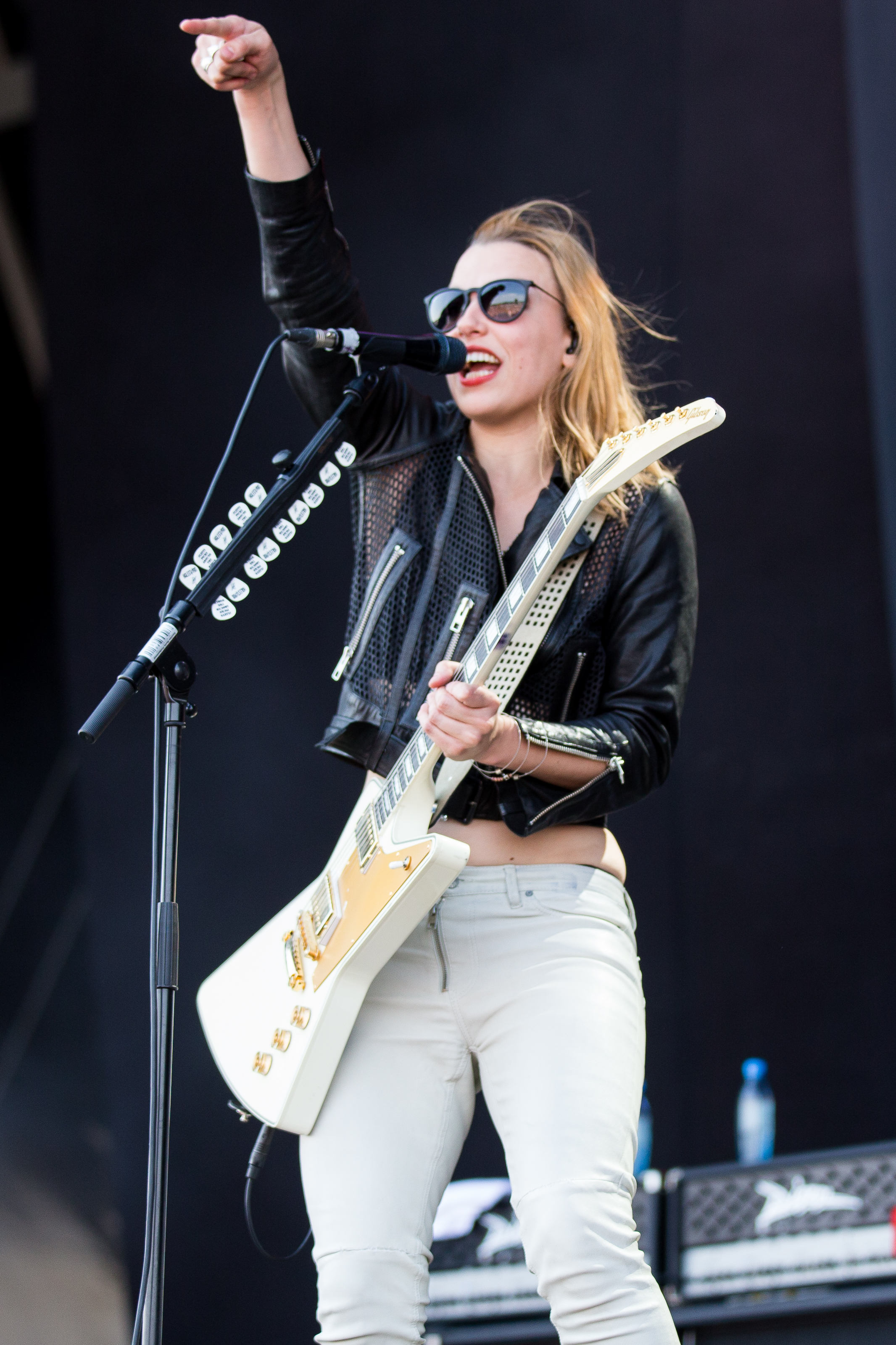 Lzzy Hale of Halestorm performing at Rock’n’Heim 2015